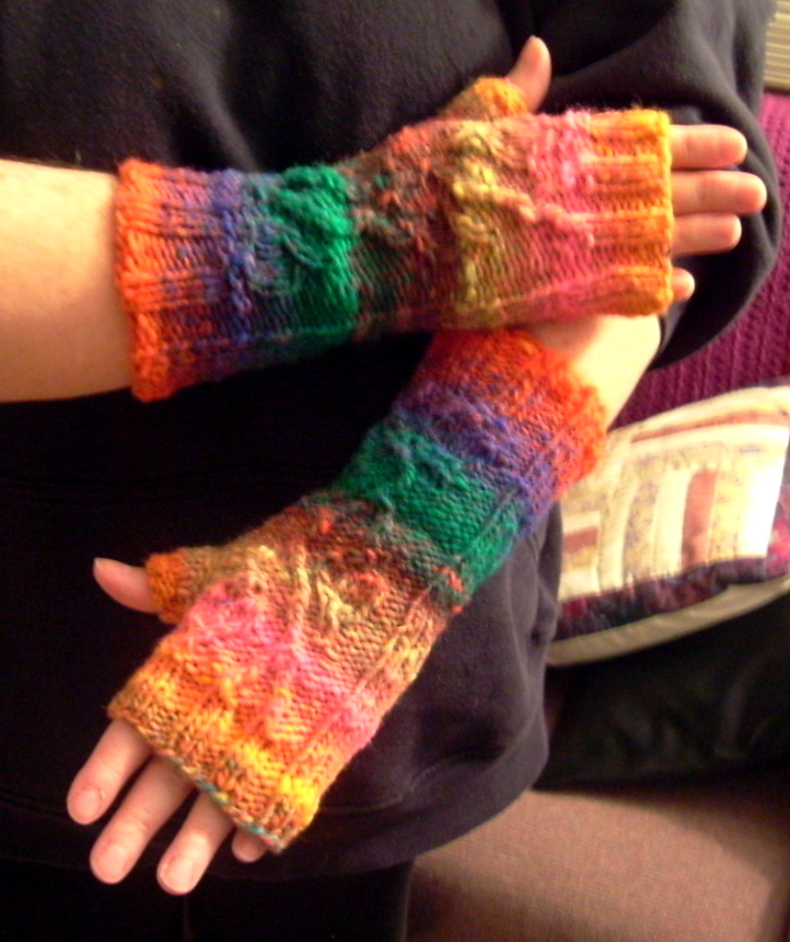 Armwarmers